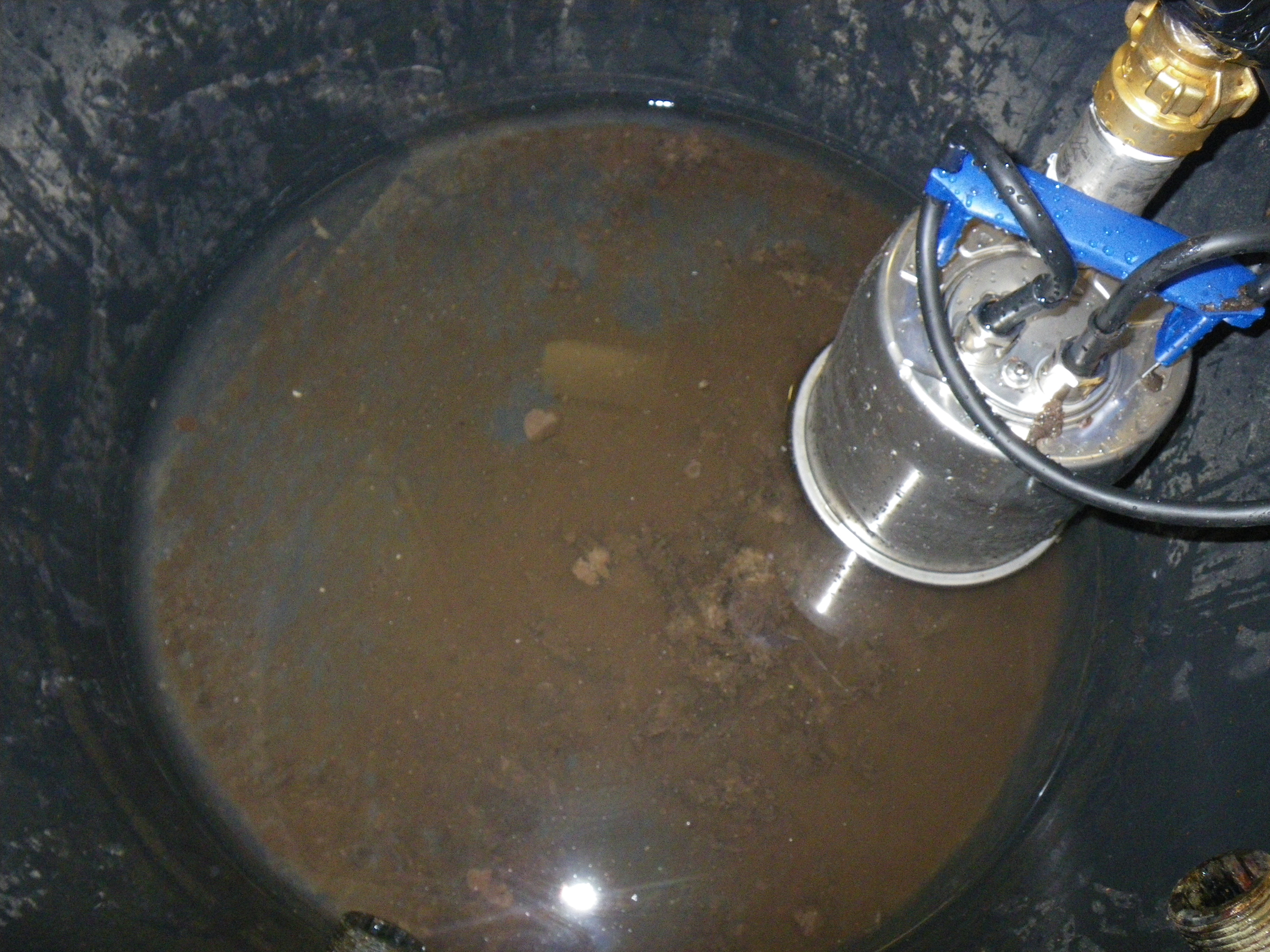 The picture shows the remaining sludge. Picture: Amel Saadoun, December 2011